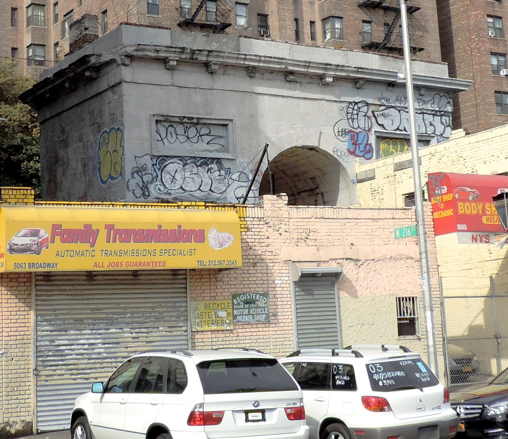 Looking north across Broadway at entrance arch of former estate.